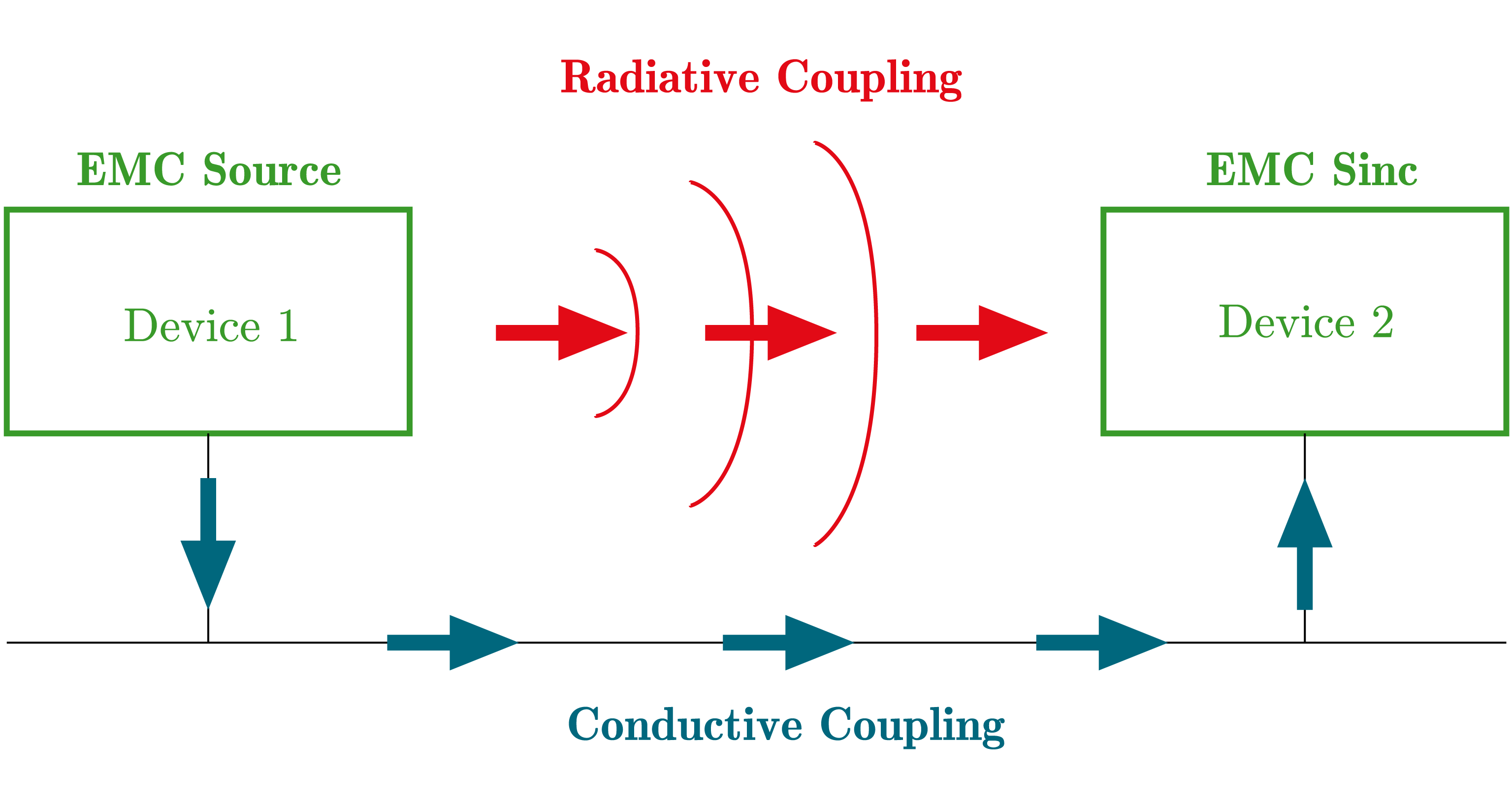 Electromagnetic coupling modes between two devices : conductive coupling and radiative coupling